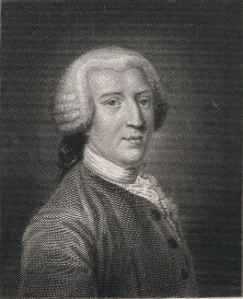 Portrait of Sir Horace Mann, 1st Baronet (1706–1786), British diplomat.